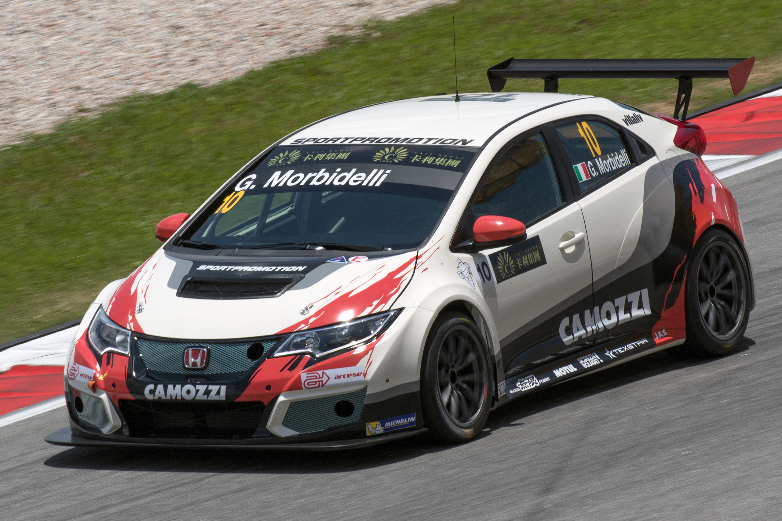 TCR International Series 2015 Rd.1 Malaysia: Gianni Morbidelli (WestCoast Racing)